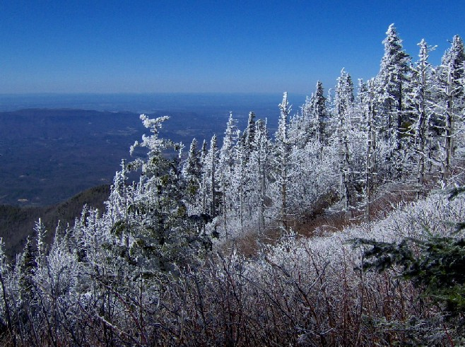 View from the Appalachian Trail as it crosses the western slope of Old Black, looking north. Cocke County, Tennessee is below. In spite of temperatures near 60F in the lowlands, the cool wind-chilled air kept the hoarfrost intact in the higher elevations.